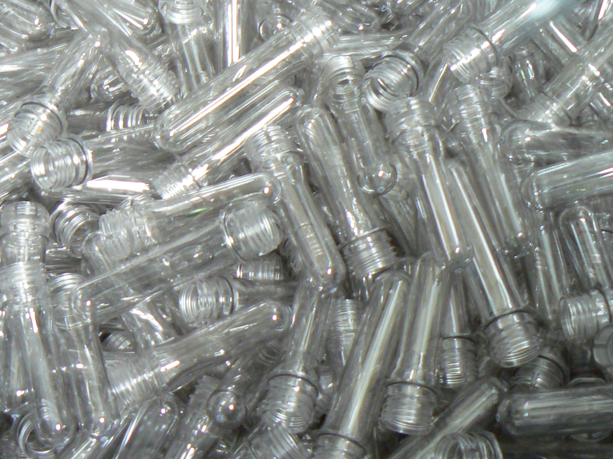 Plastic bottles before processing